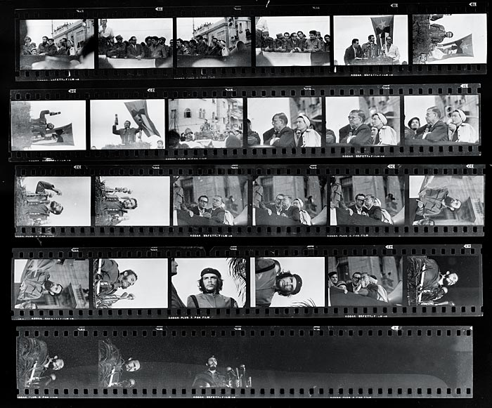 This is Alberto Korda's full roll of film from the March 5, 1960 La Coubre memorial service in Havana, Cuba. Contained on the roll are images of Fidel Castro, Jean-Paul Sartre, Simone de Beauvoir, and his famous image of Che Guevara entitled Guerrillero Heroico